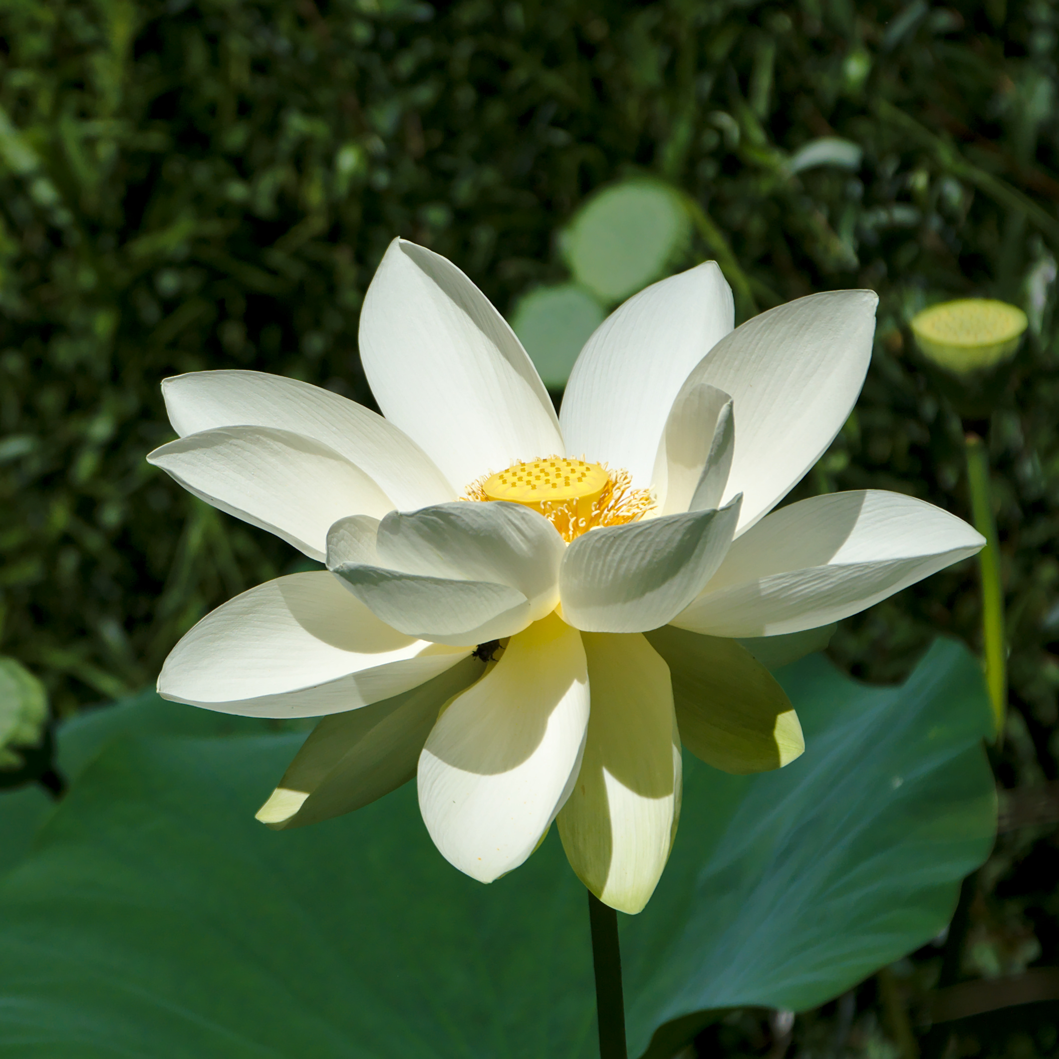 American lotus Nelumbo lutea in botanical garden "Jardin des Martels".